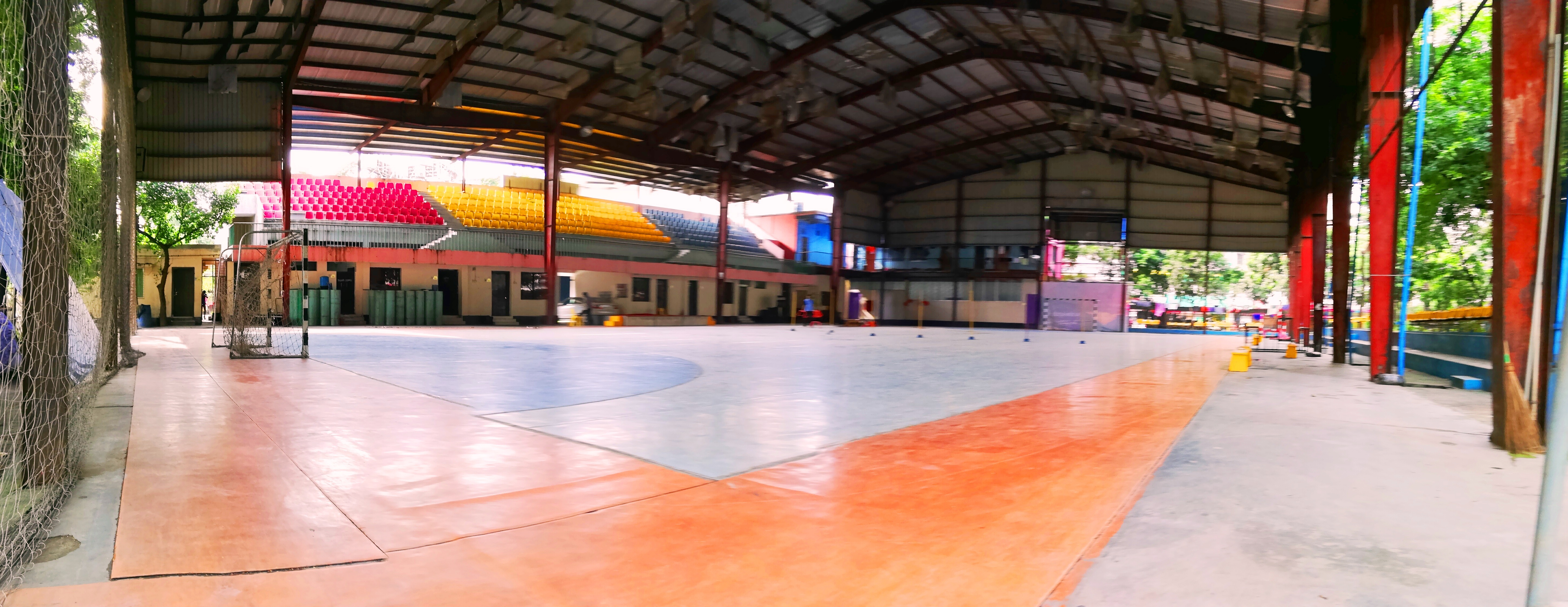 Panorama of Shaheed Captain Mansur Ali National Handball Stadium